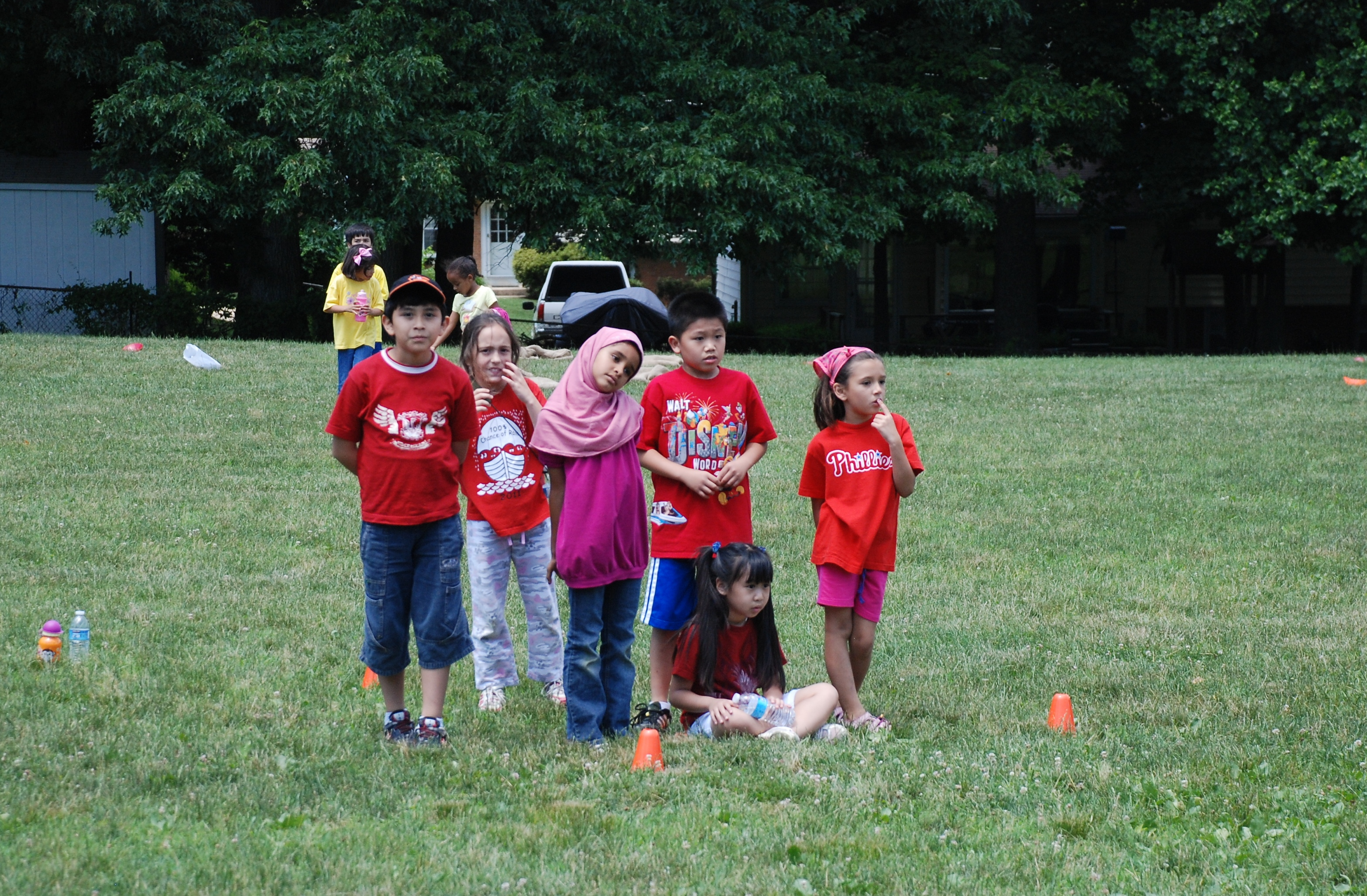 Day of sports and games at elementary school in Fairfax County, Virginia: Frisbee baseball.